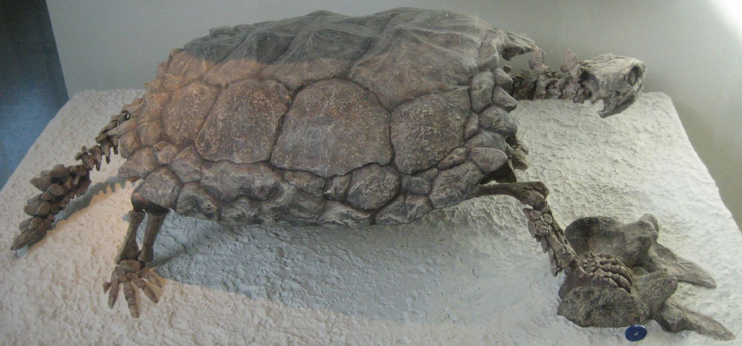 Proganochelys quenstedti, American Museum of Natural History